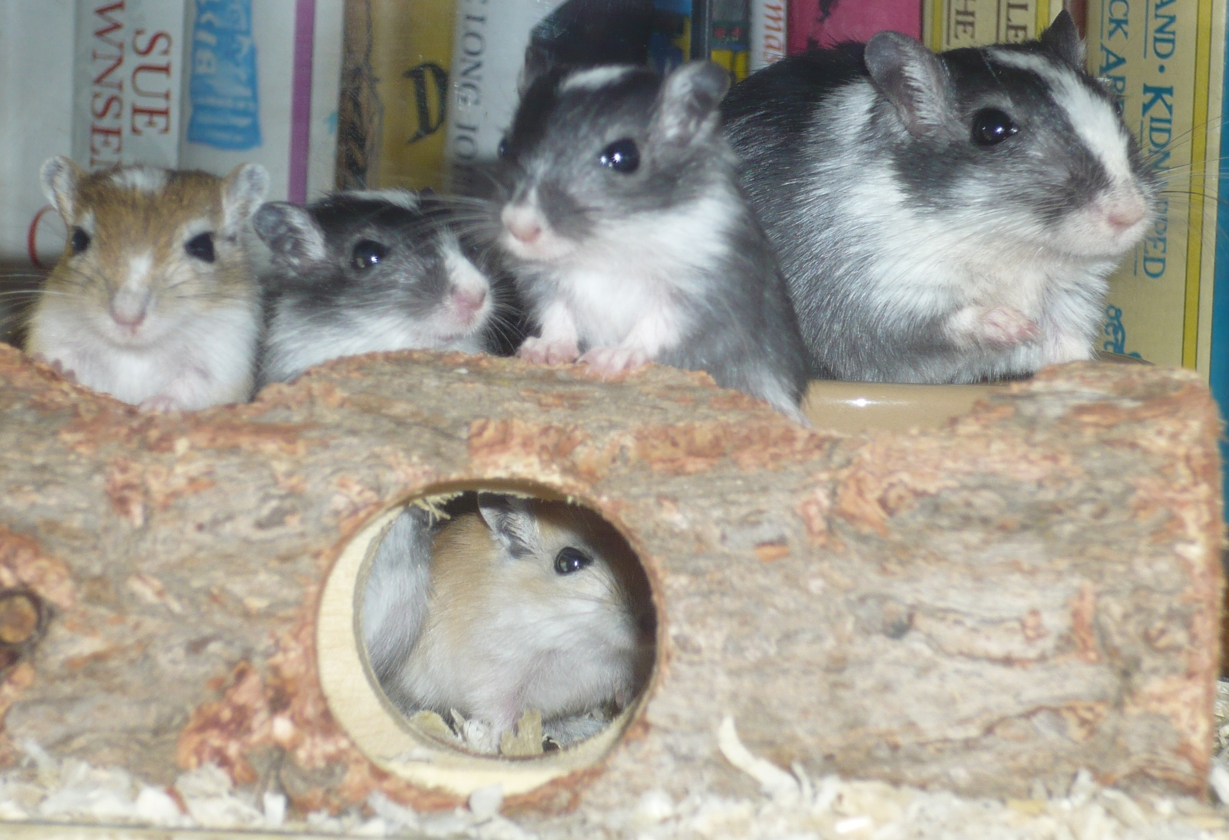 A mother gerbil sat with four young gerbils